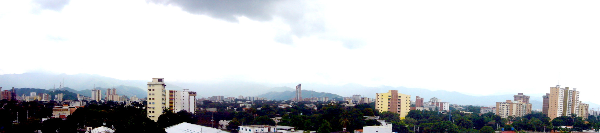 View of Maracay from San Ignacio